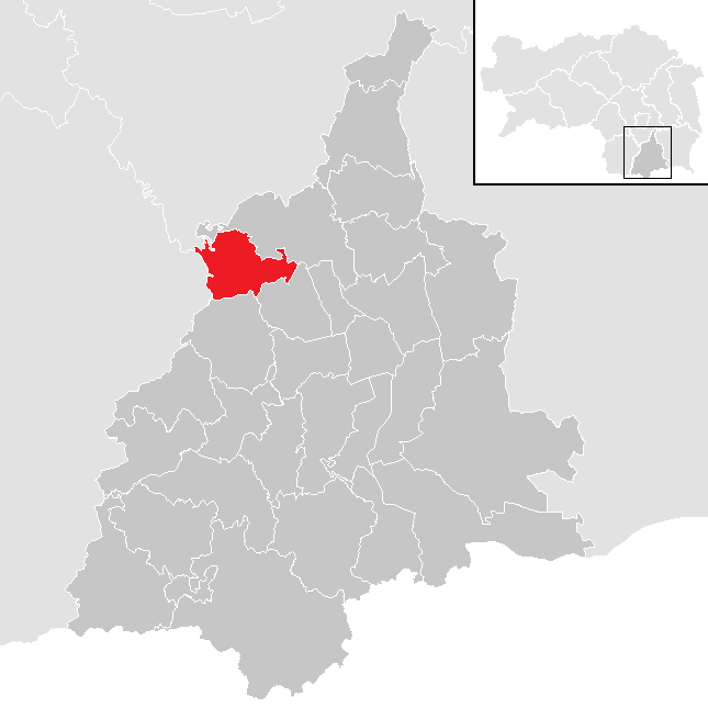 District Leibnitz